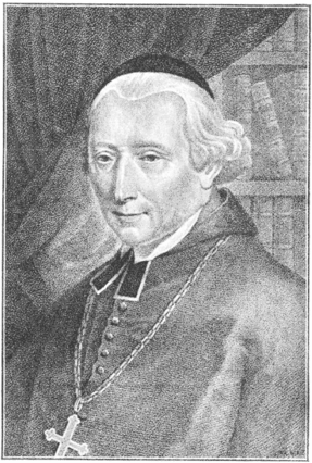 Portrait of Josef František Hurdálek (1747-1833), Roman Catholic Bishop of Litoměřice, Bohemia. Reprint of an engraving from National Museum in Prague.